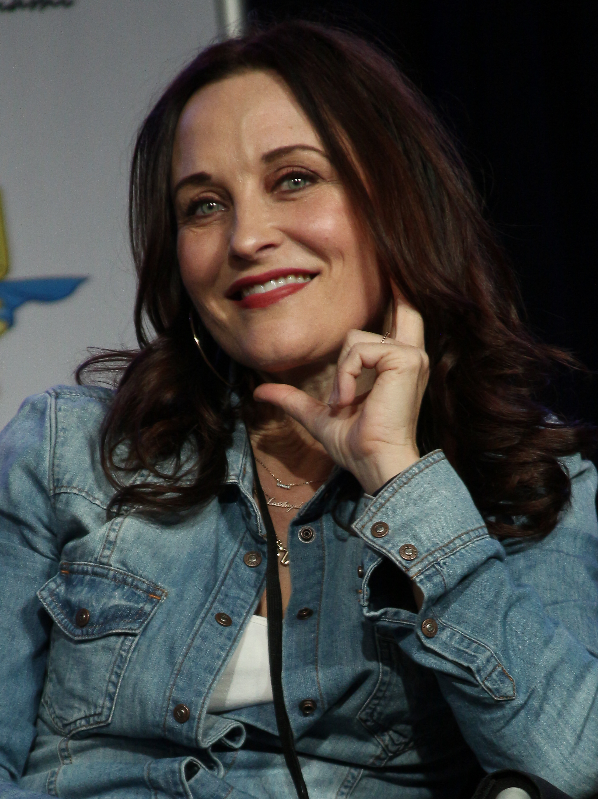 Courtenay Taylor at the Magic City Comic Con in 2016